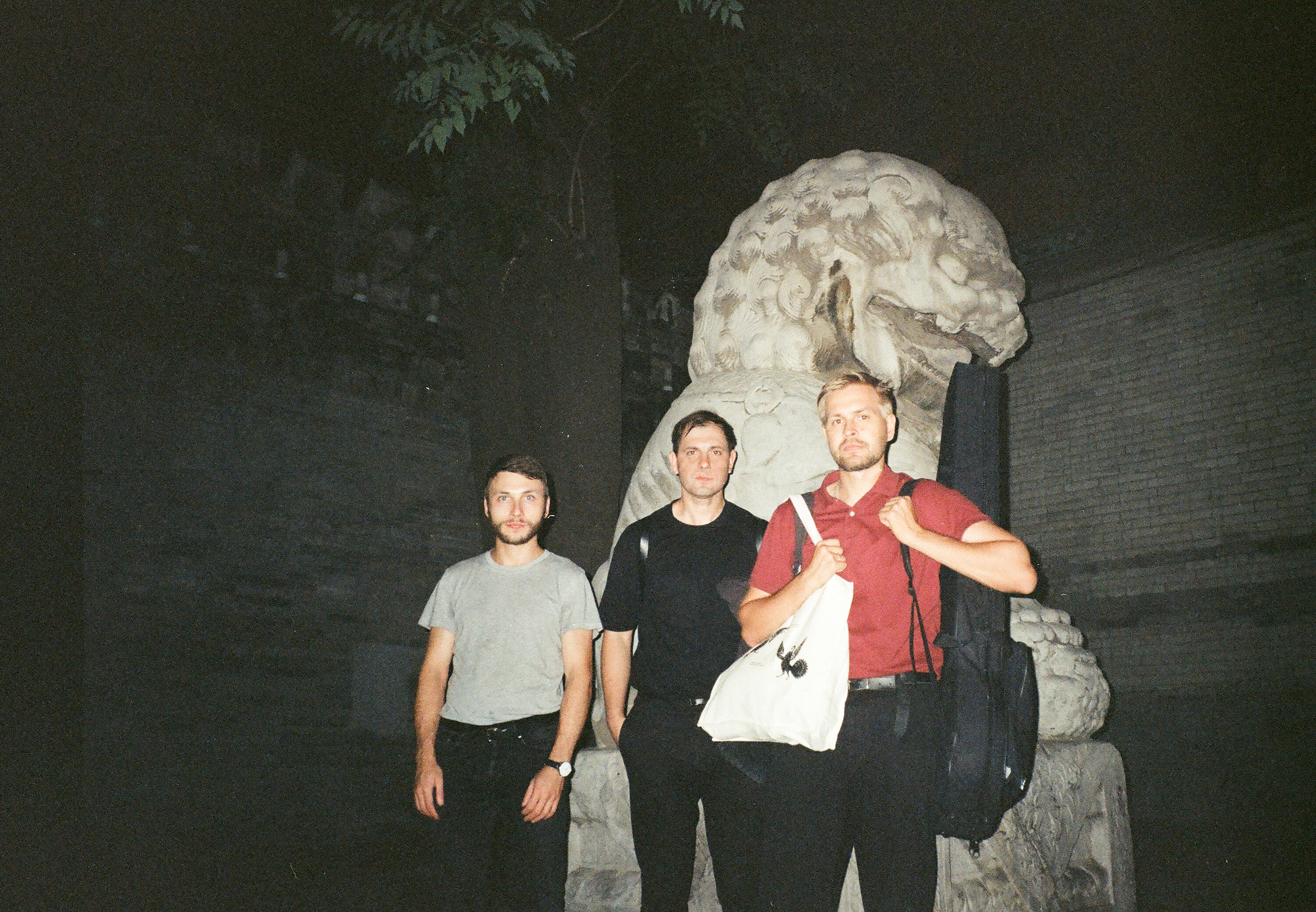 Motorama, tour in China 2017